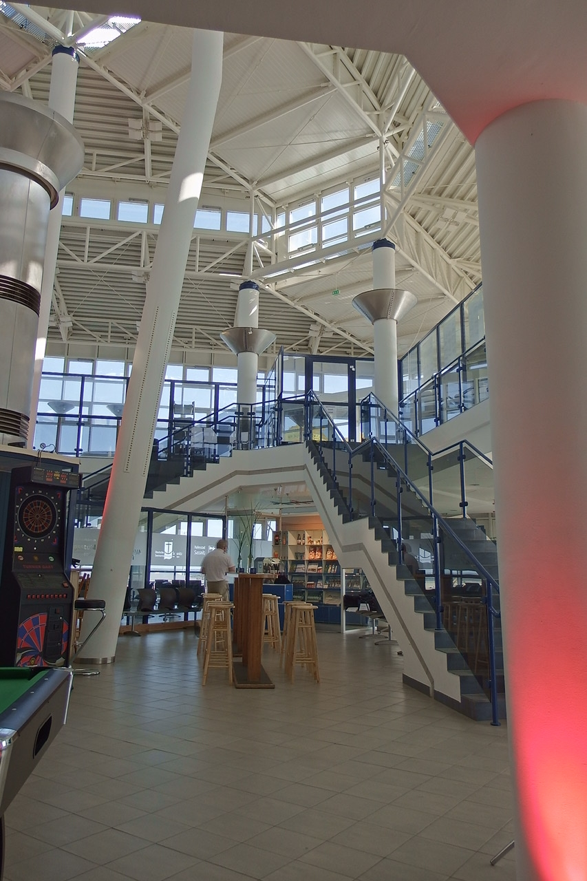 Main hall